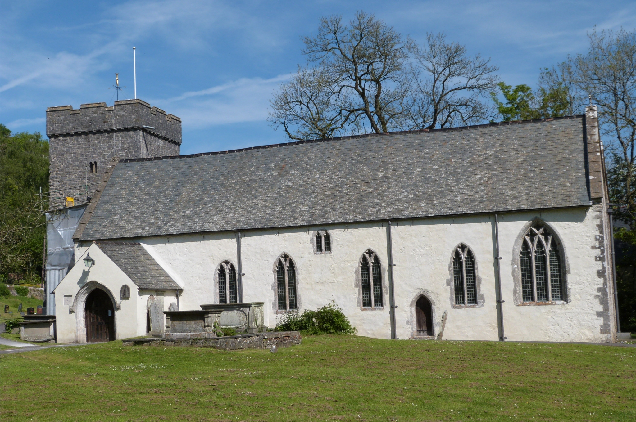 Creative Commons: James Alexander Cameron